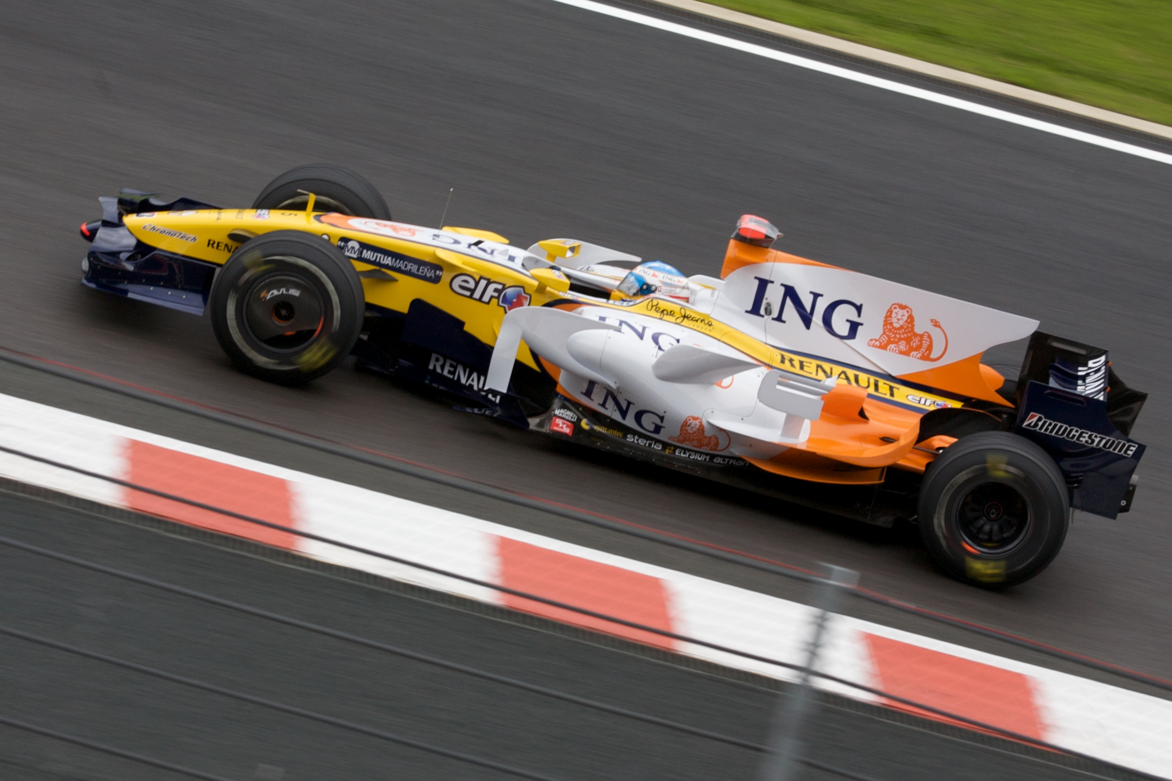 Fernando Alonso, 2008 Belgian Grand Prix